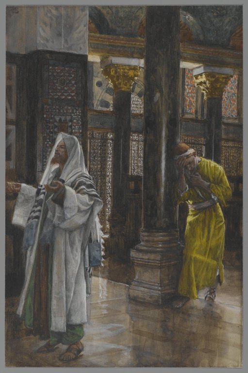 The Pharisee and the Publican (Le pharisien et le publicain) by James Tissot, 1886-94, Opaque watercolor over graphite on gray wove paper, Brooklyn Museum